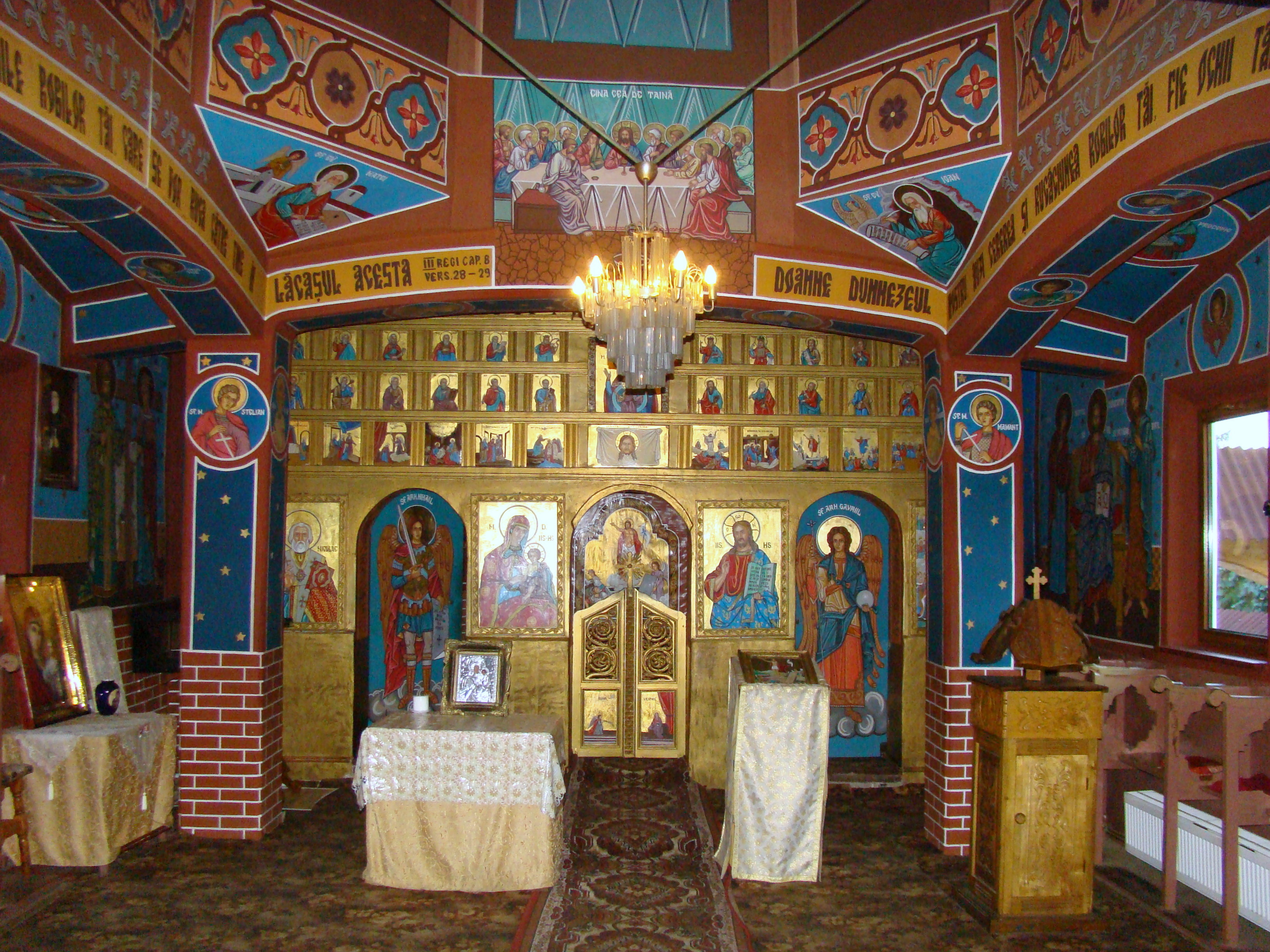 Wooden church in Vărzăroaia, Argeș county, Romania